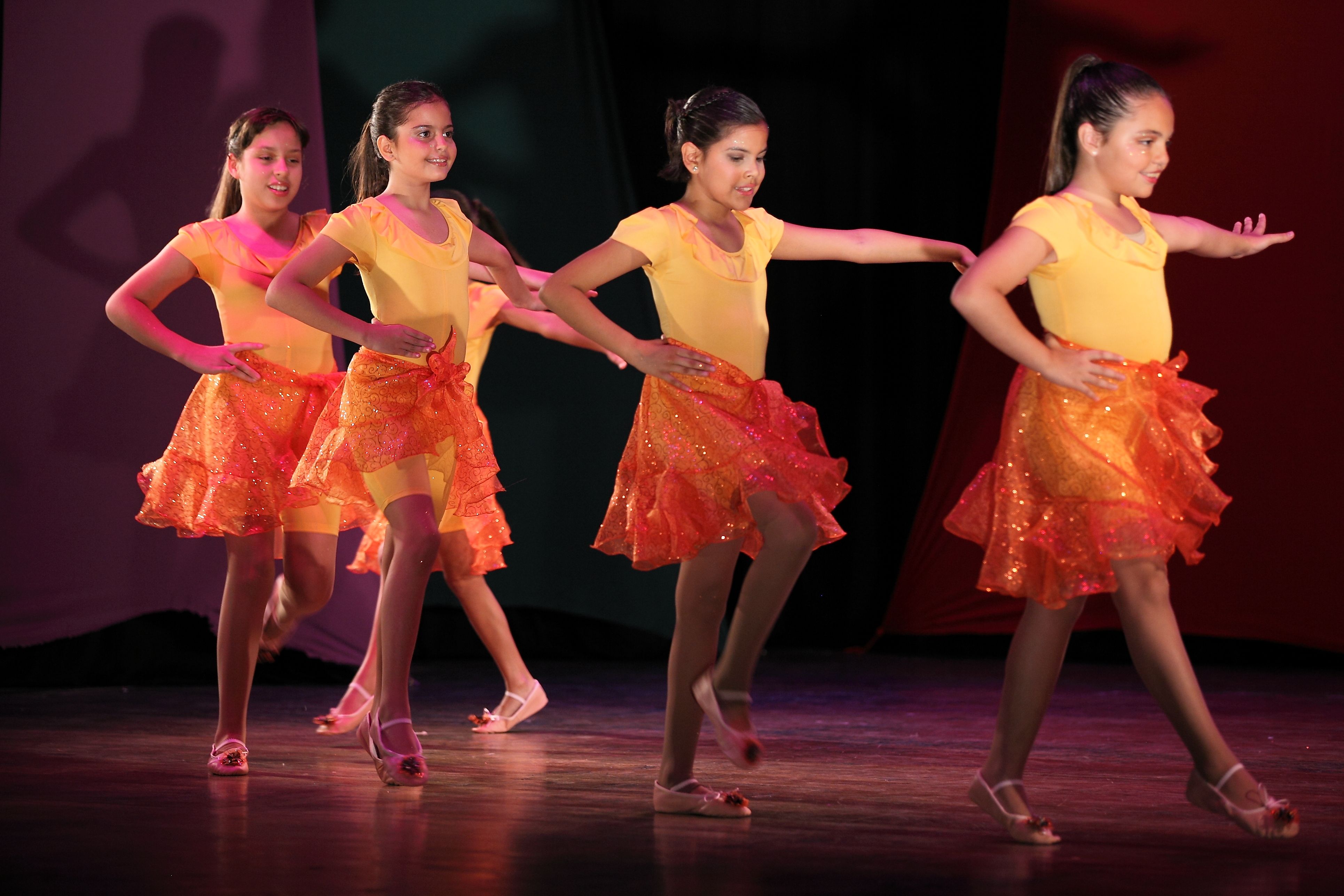 Dance is rooted in Venezuelan culture